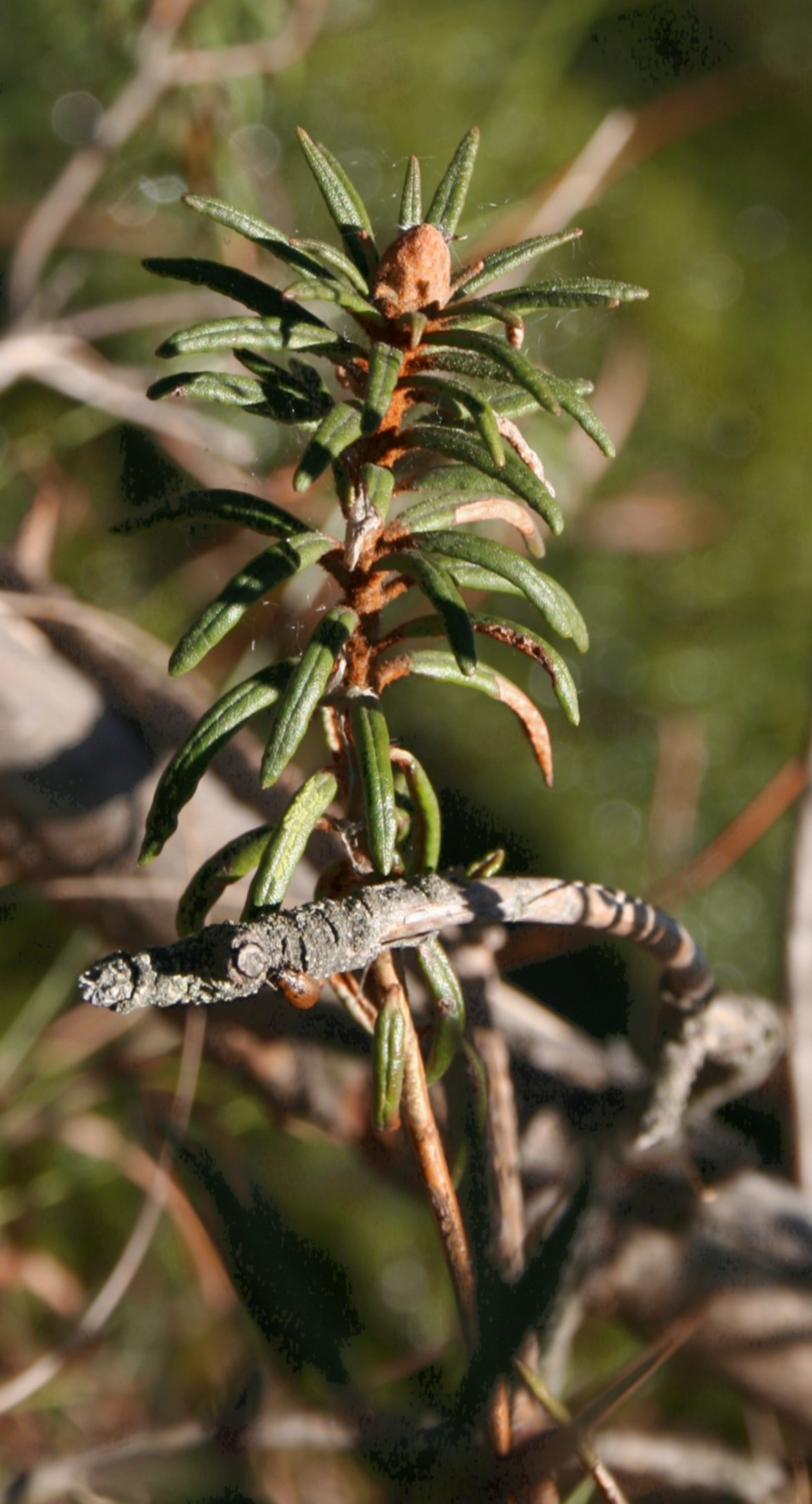 Marsh Labrador Tea